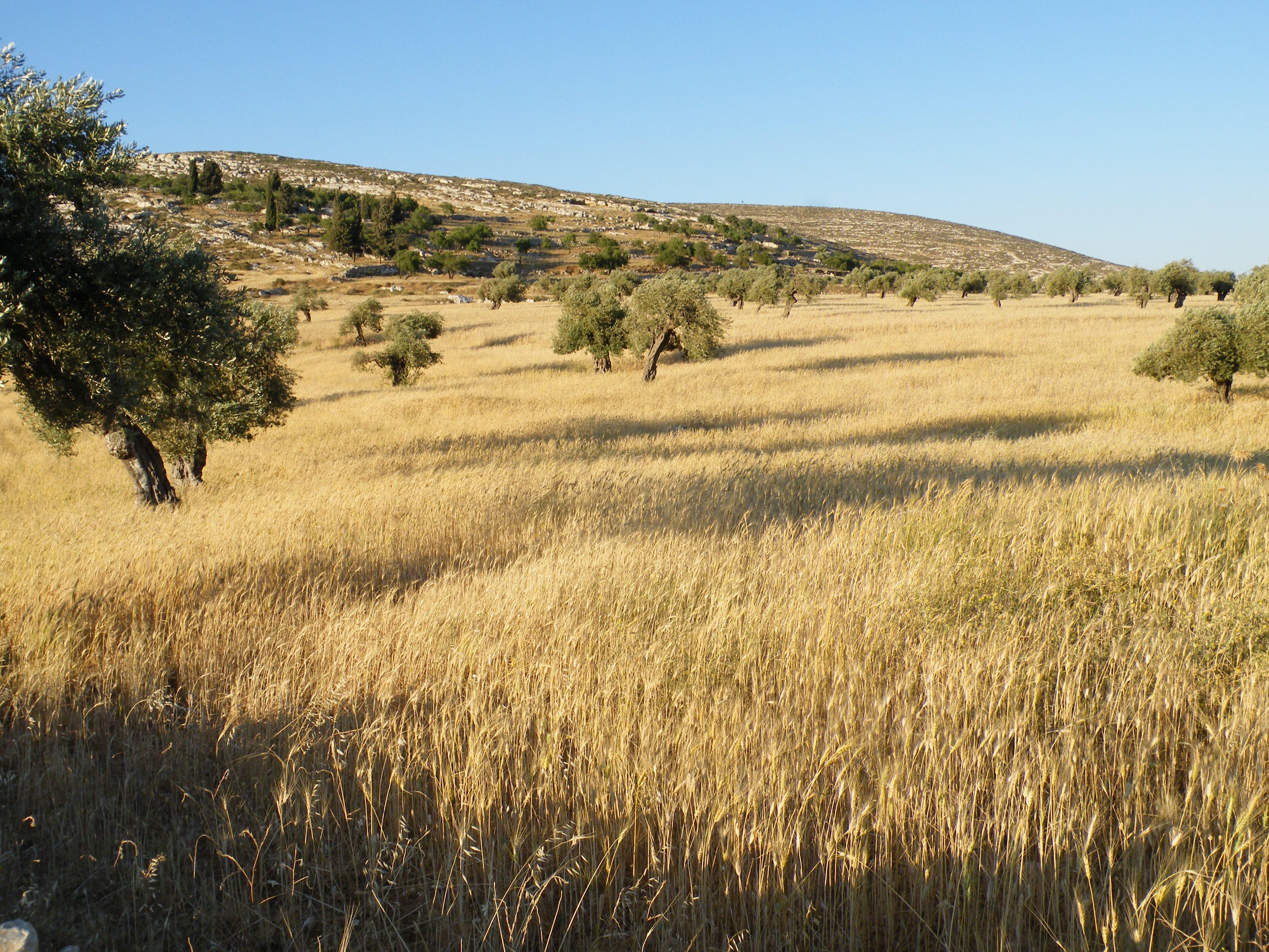 The lovely golden fields of Yanoun in May.